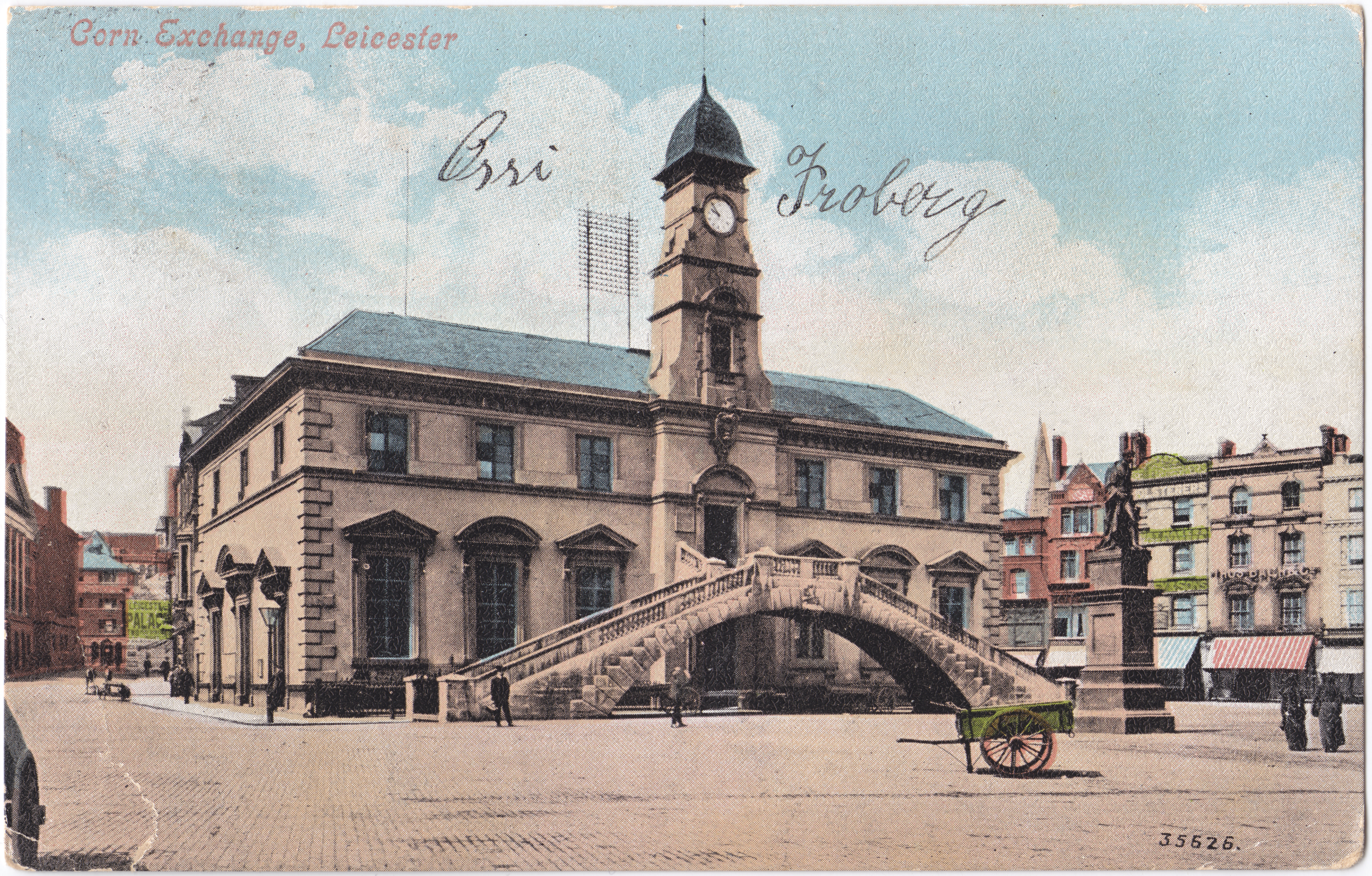 A postcard of the Corn Exchange and market place| in Leicester. Published in (or before) 1906, photographer unknown: therefore in public domain in UK copyright law.